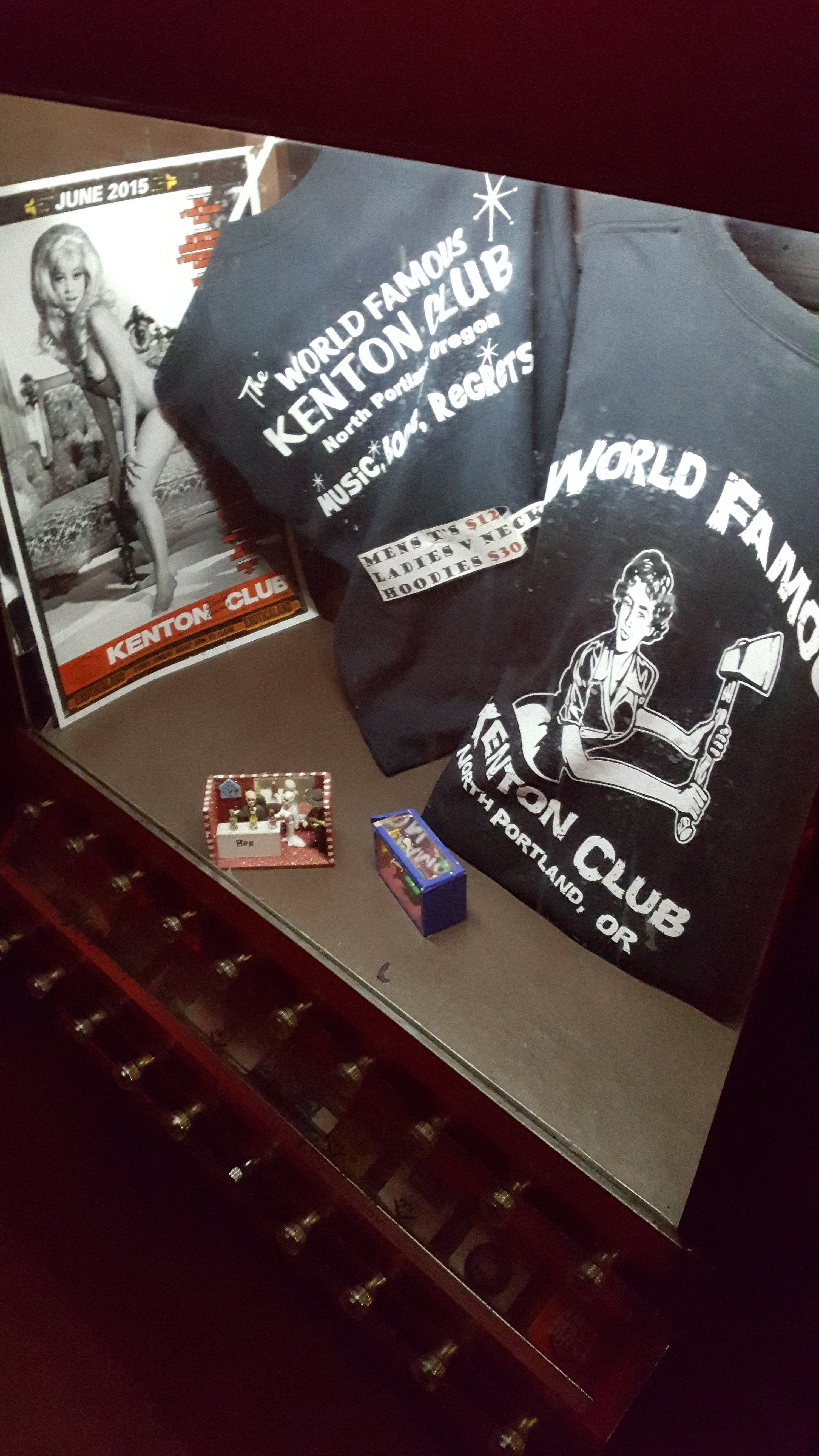 World Famous Kenton Club, Portland, Oregon, 2018